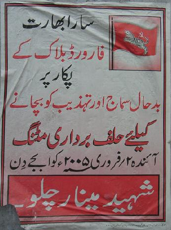 All India Forward Bloc poster in Kolkata. Calls for people to participate in a march to Shahid Minar on February 2, 2005. Language Urdu. Photo: Soman The text reads: "To the whole of India - to protect the reeling society and culture come to the oath taking meeting on February 2, 2005 at 1 p.m. near Shahid Minar".